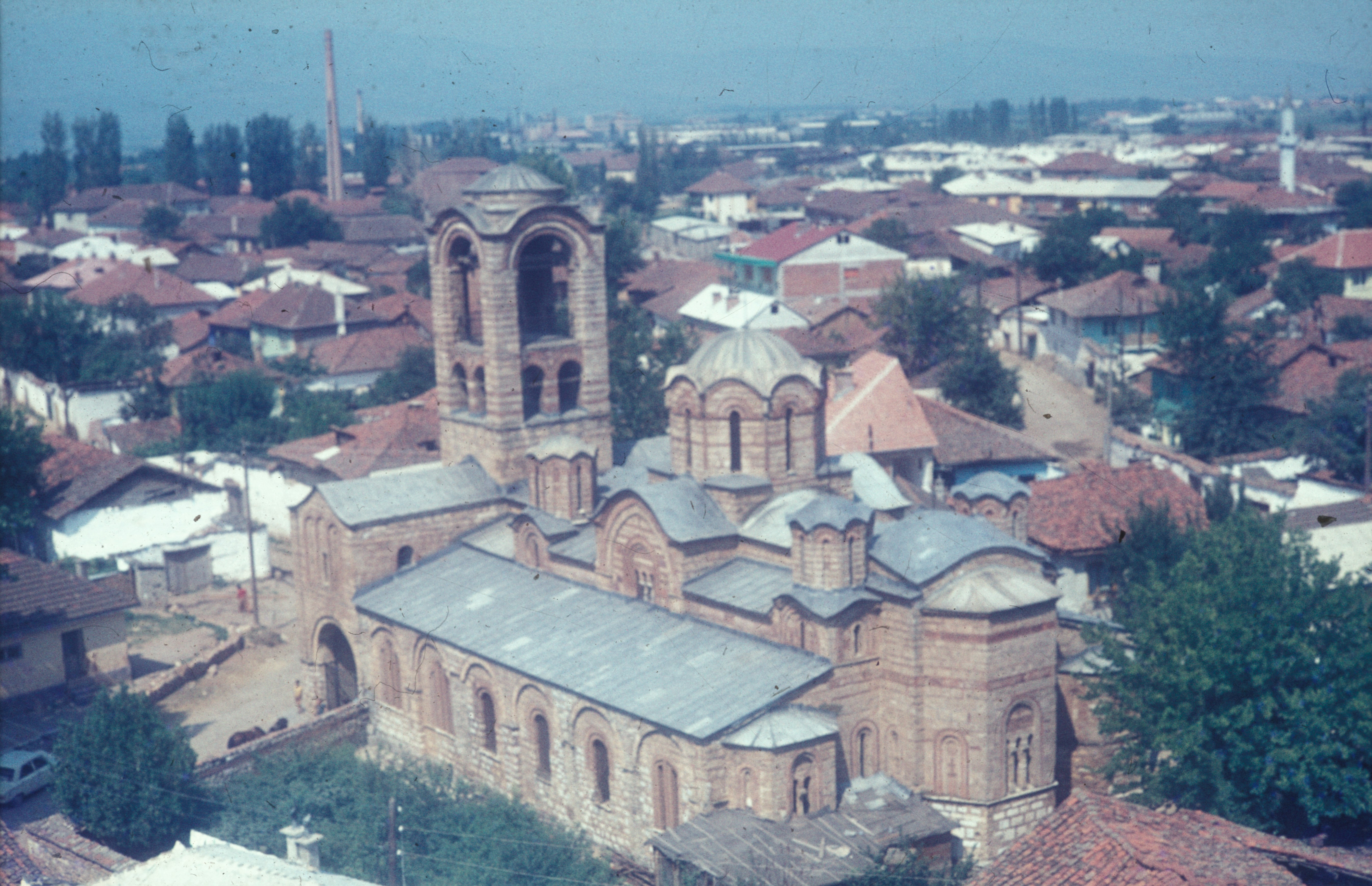 Old photo of Church Our Lady of Ljeviš in Prizren